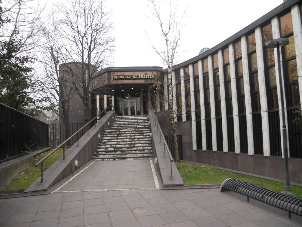 Gionale di Brescia. Brescia.